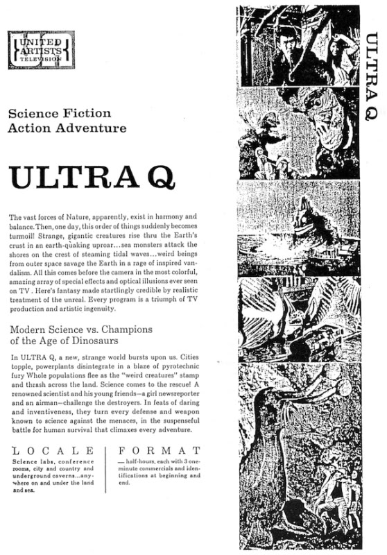 This proves that Ultra Q was indeed dubbed in English.